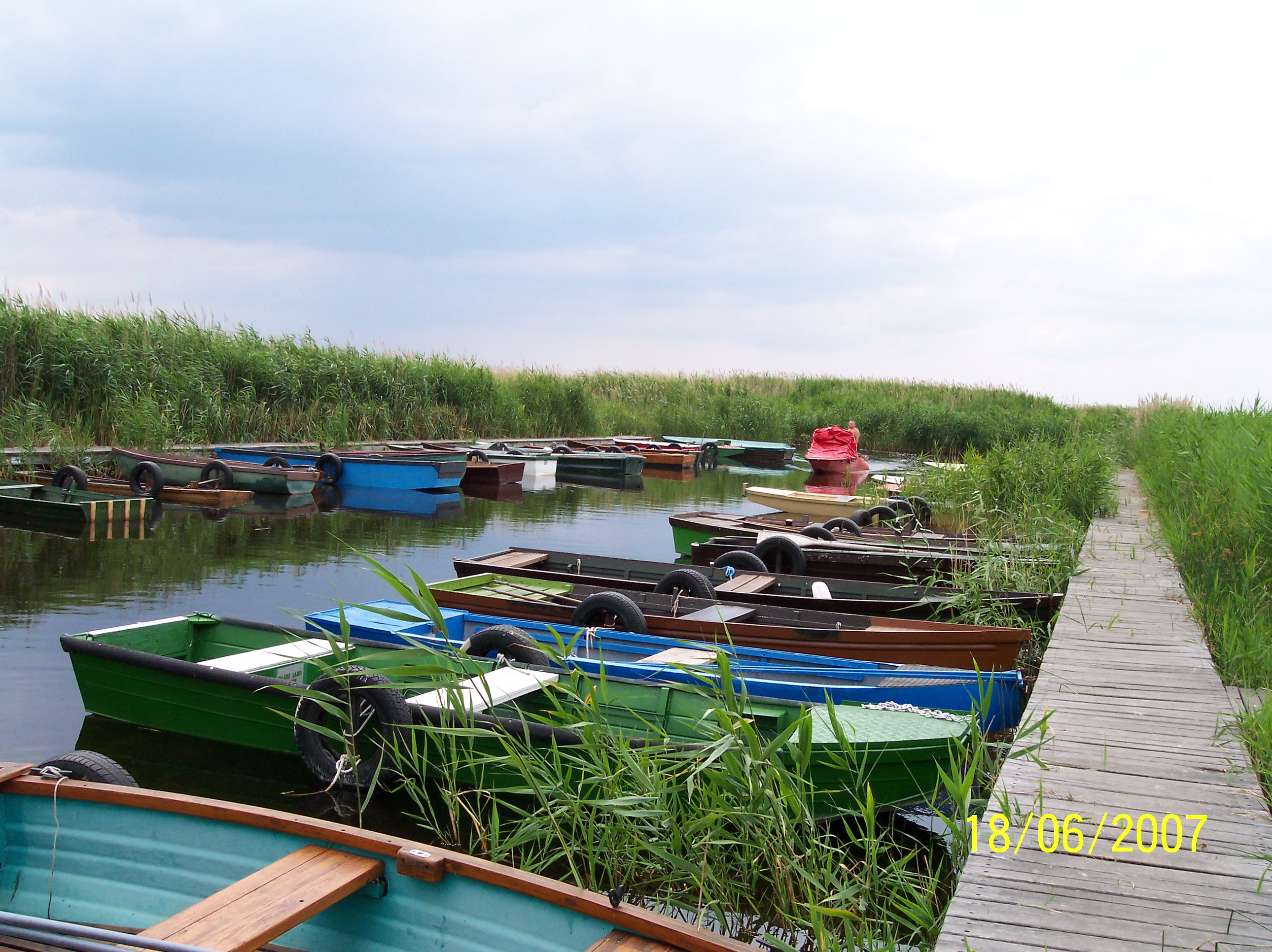 Velencei To' Fishing paradise